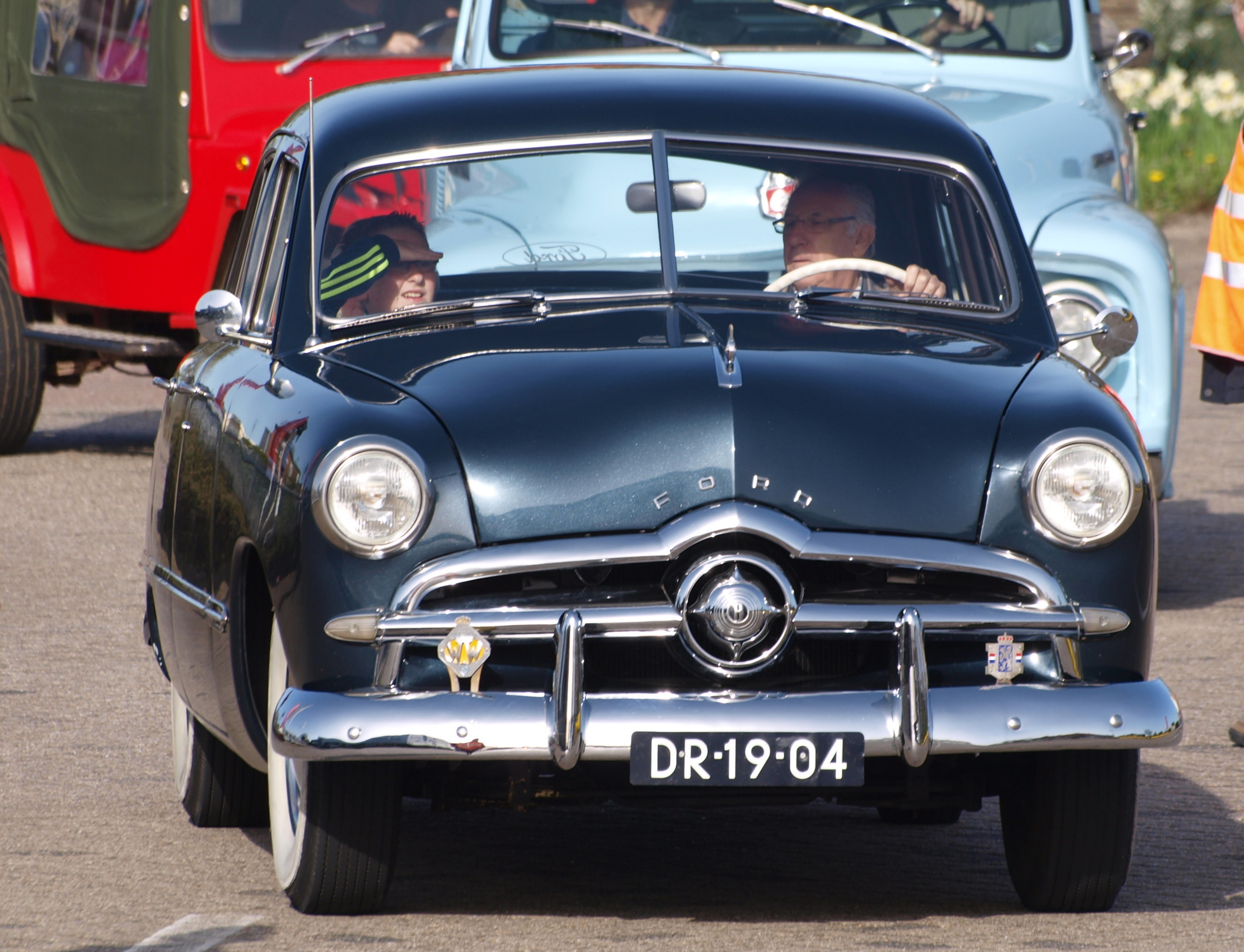 1949 Ford custom 300